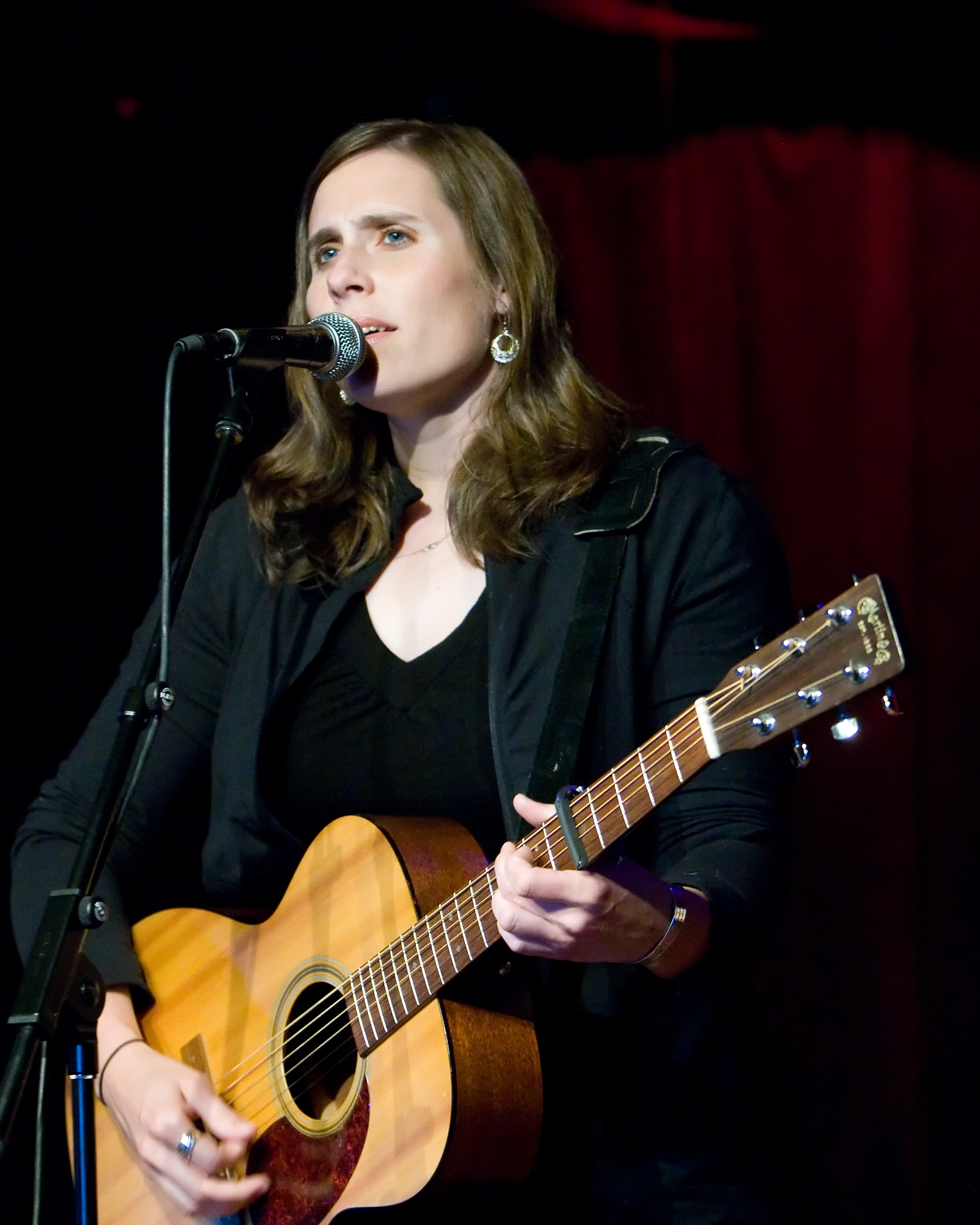 The early show at High Noon Saloon